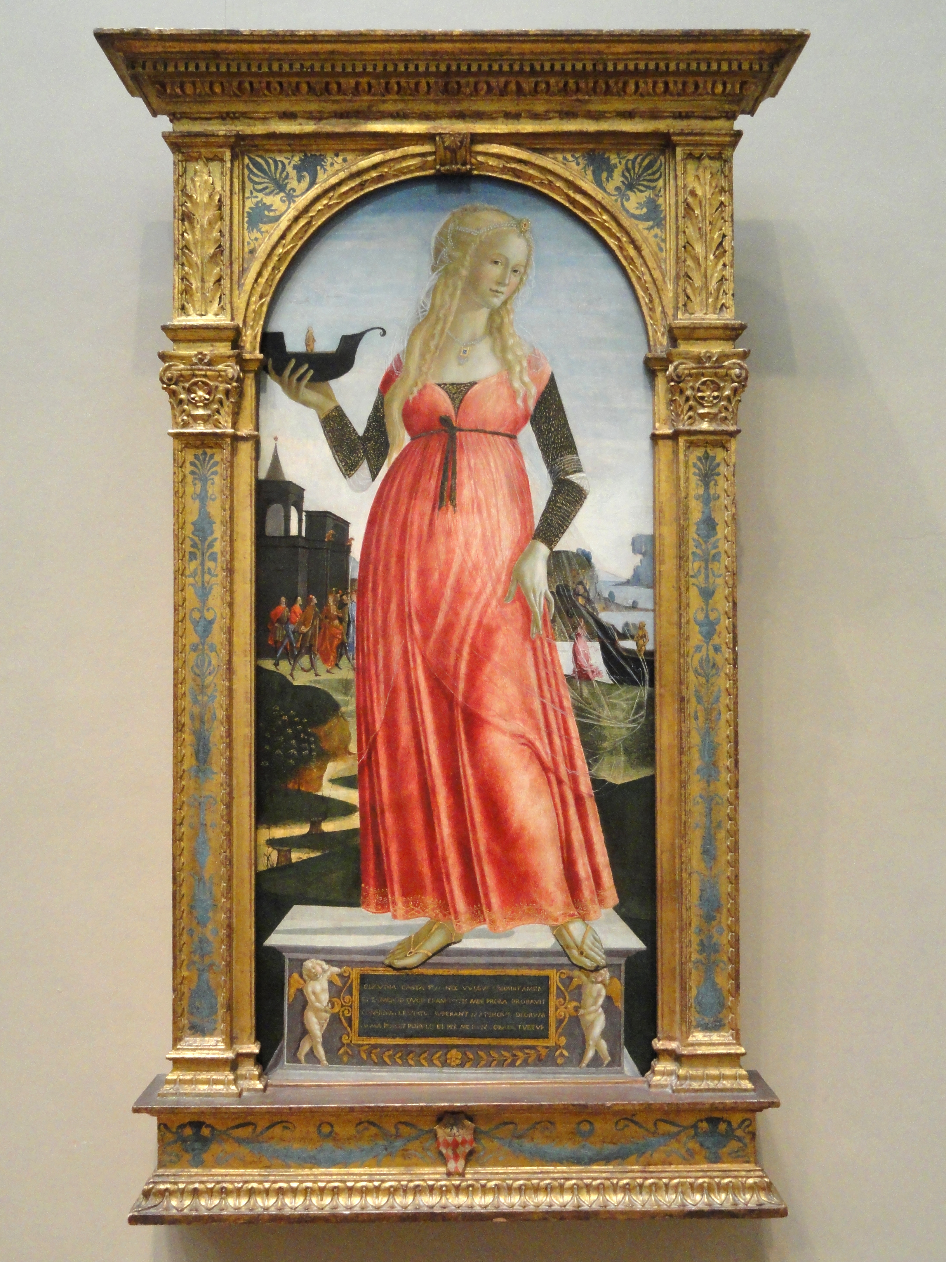 Painting exhibited in the National Gallery of Art, Washington, DC, USA. This artwork is in the public domain because the artist died more than 70 years ago.